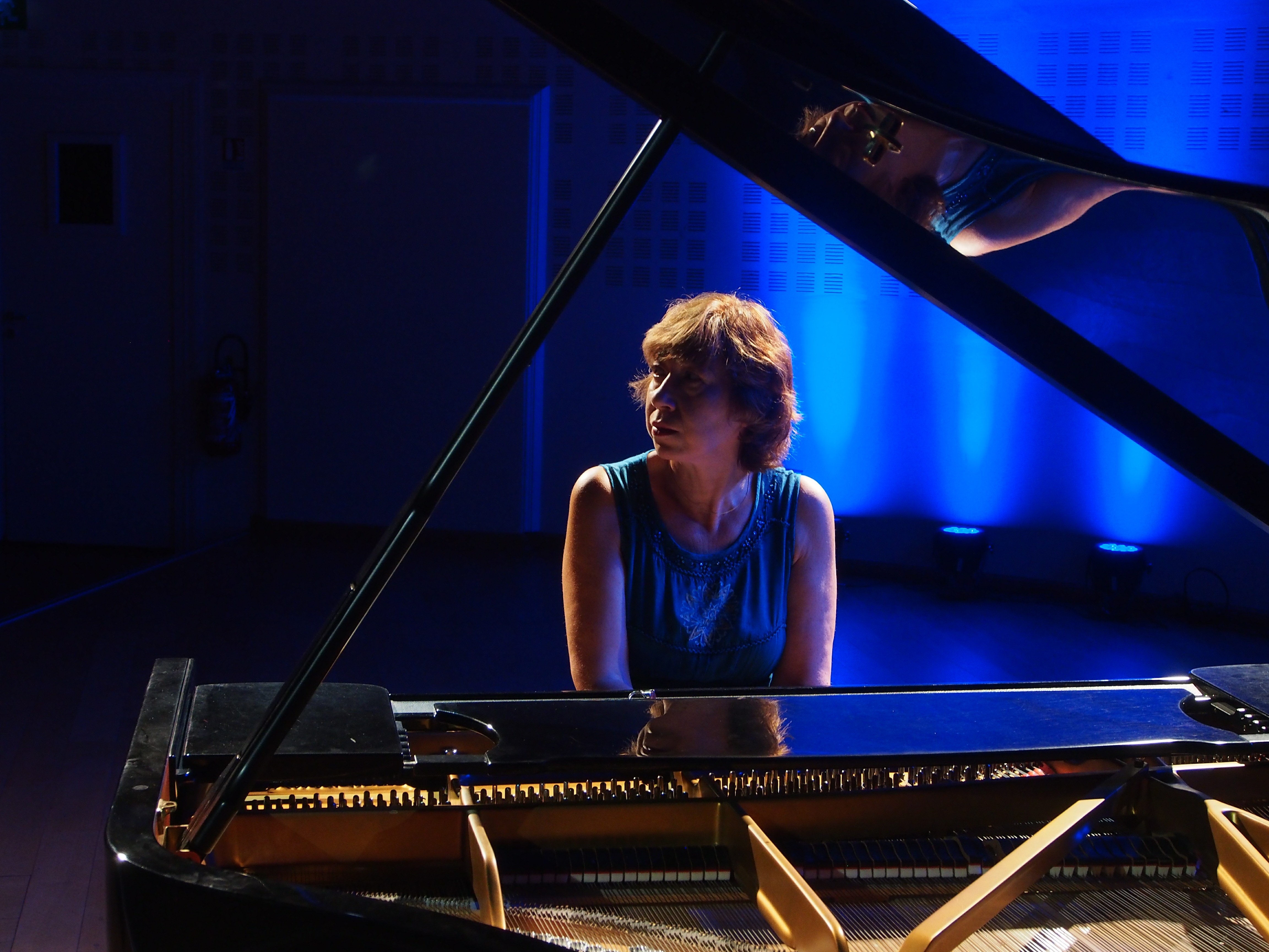 Elena Kuschnerova at the recital in Lille in 2014